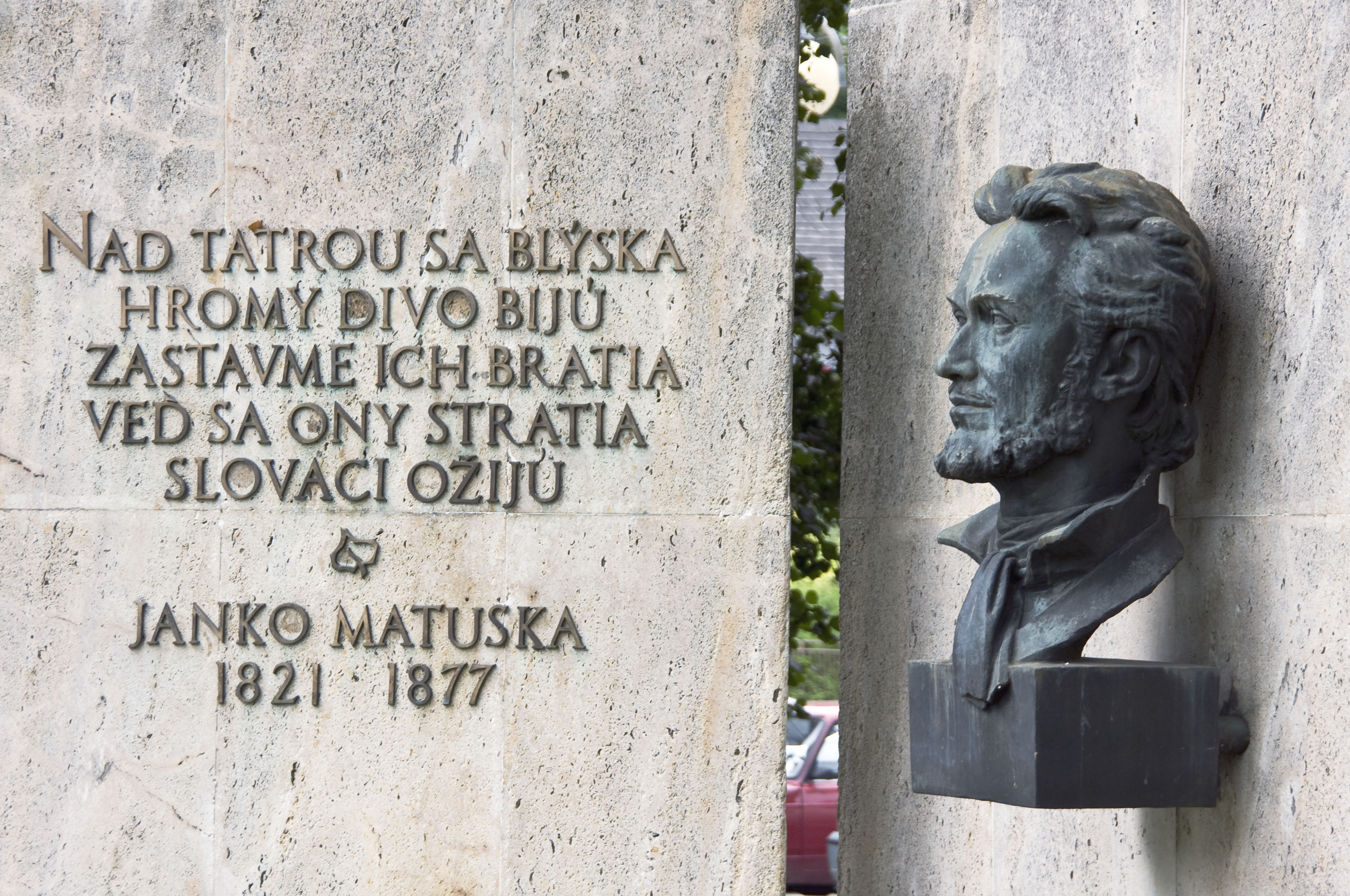 Janko Matúška